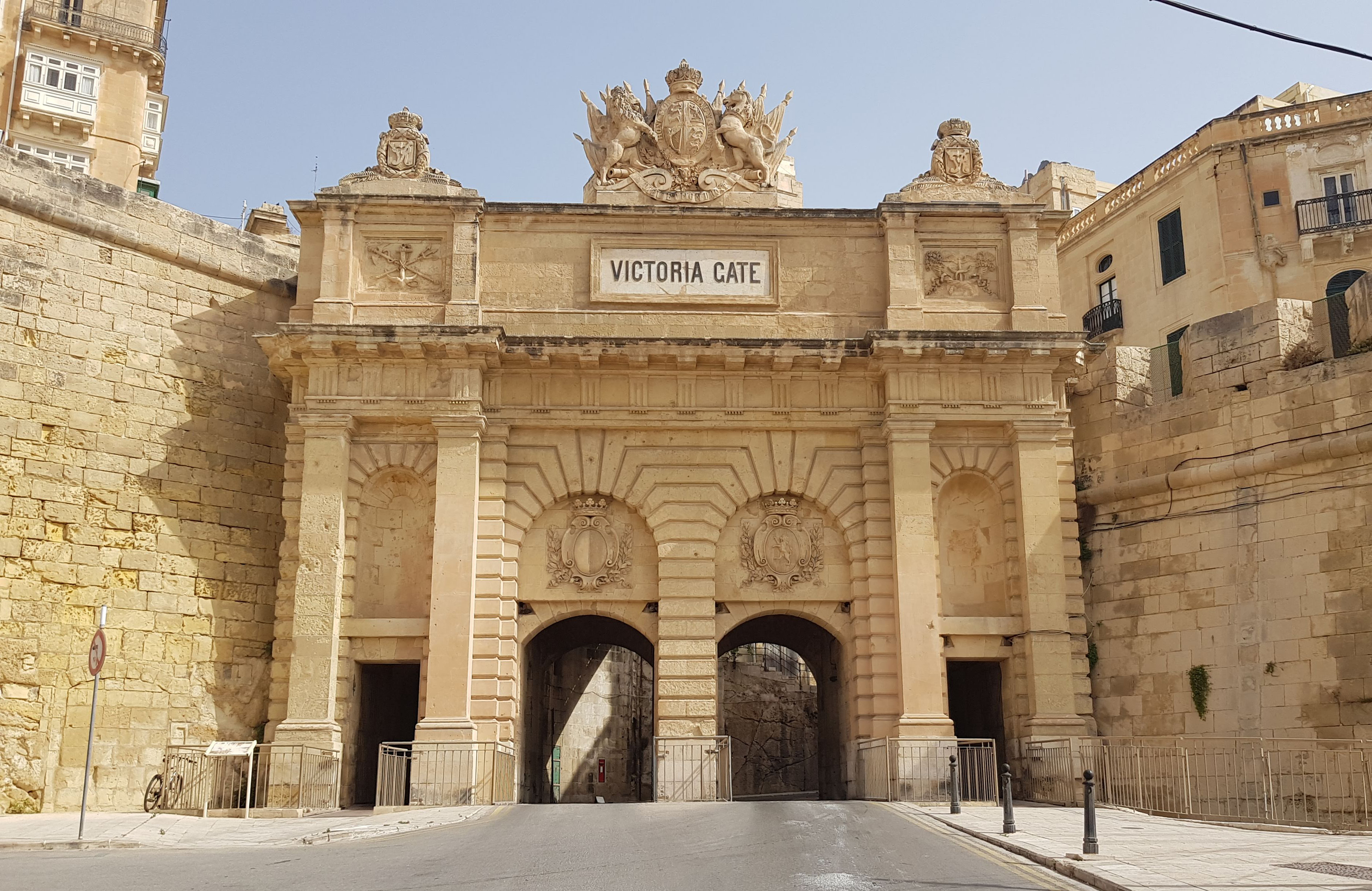 Victoria Gate in Valletta, Malta This media is about Maltese cultural property with inventory number 1595.